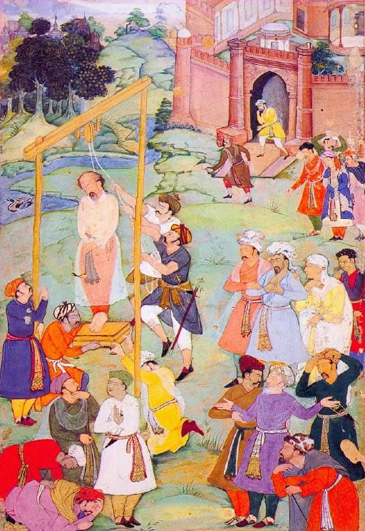 A depiction of the execution of Mansur al-Hallaj